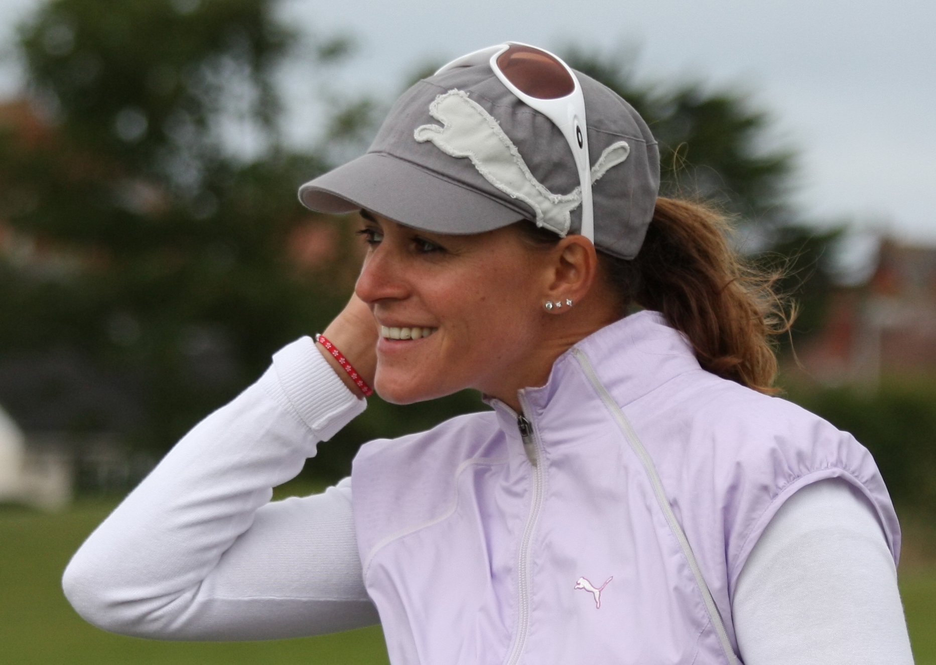 LYTHAM ST ANNES, UNITED KINGDOM - JULY 28: Paula Marti of Spain on the 16th tee during pro-am round before 2009 Ricoh Women's British Open held at Royal Lytham & St Annes on July 28, 2009 in Lytham St Annes, England. (Photo by Wojciech Migda)